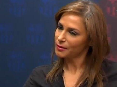 TV Journalist